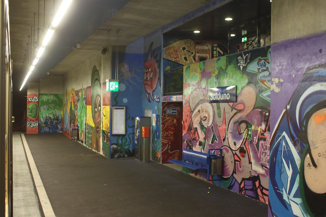 Solduno train station.